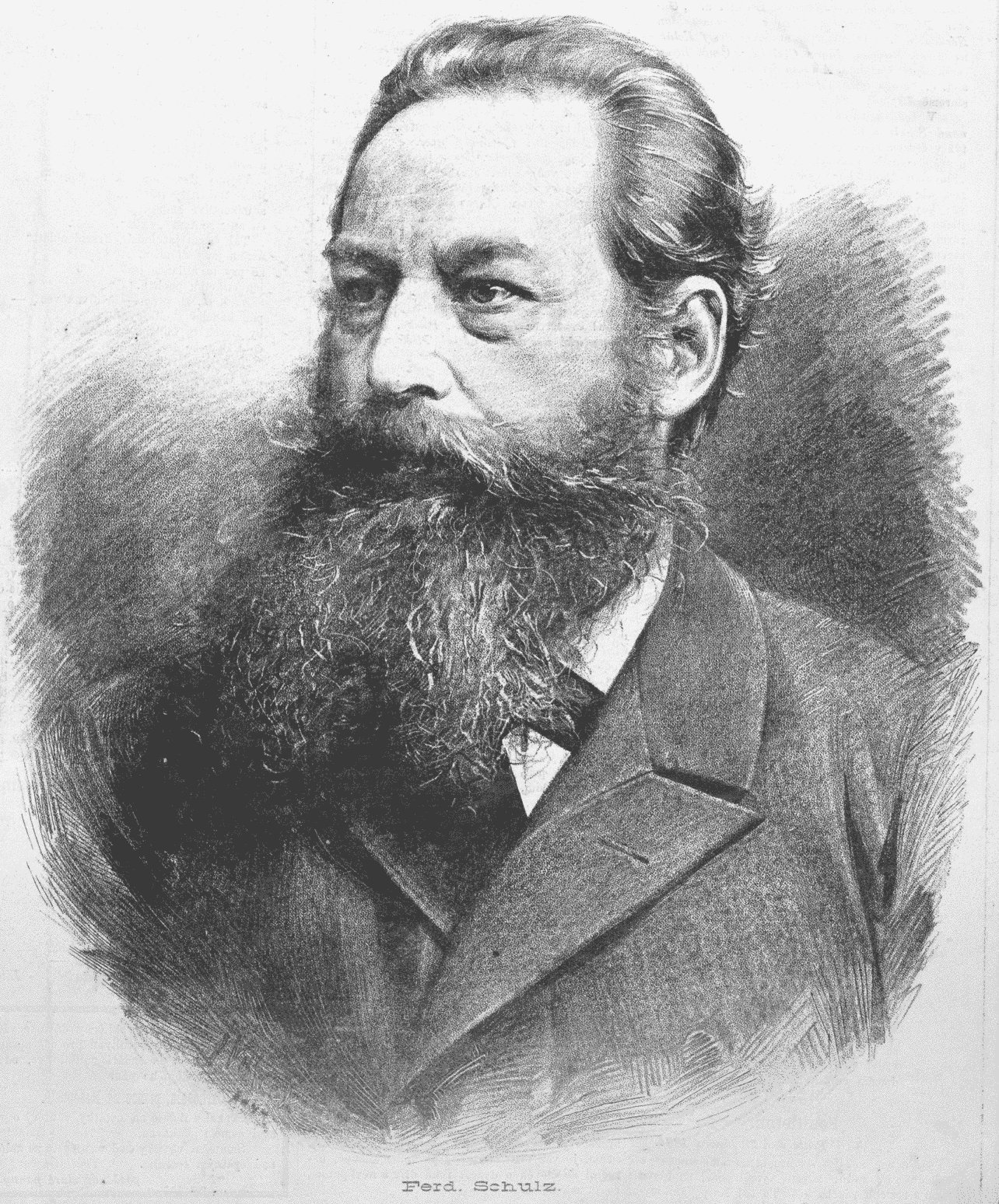 Portrait of Ferdinand Schulz, Czech writer.